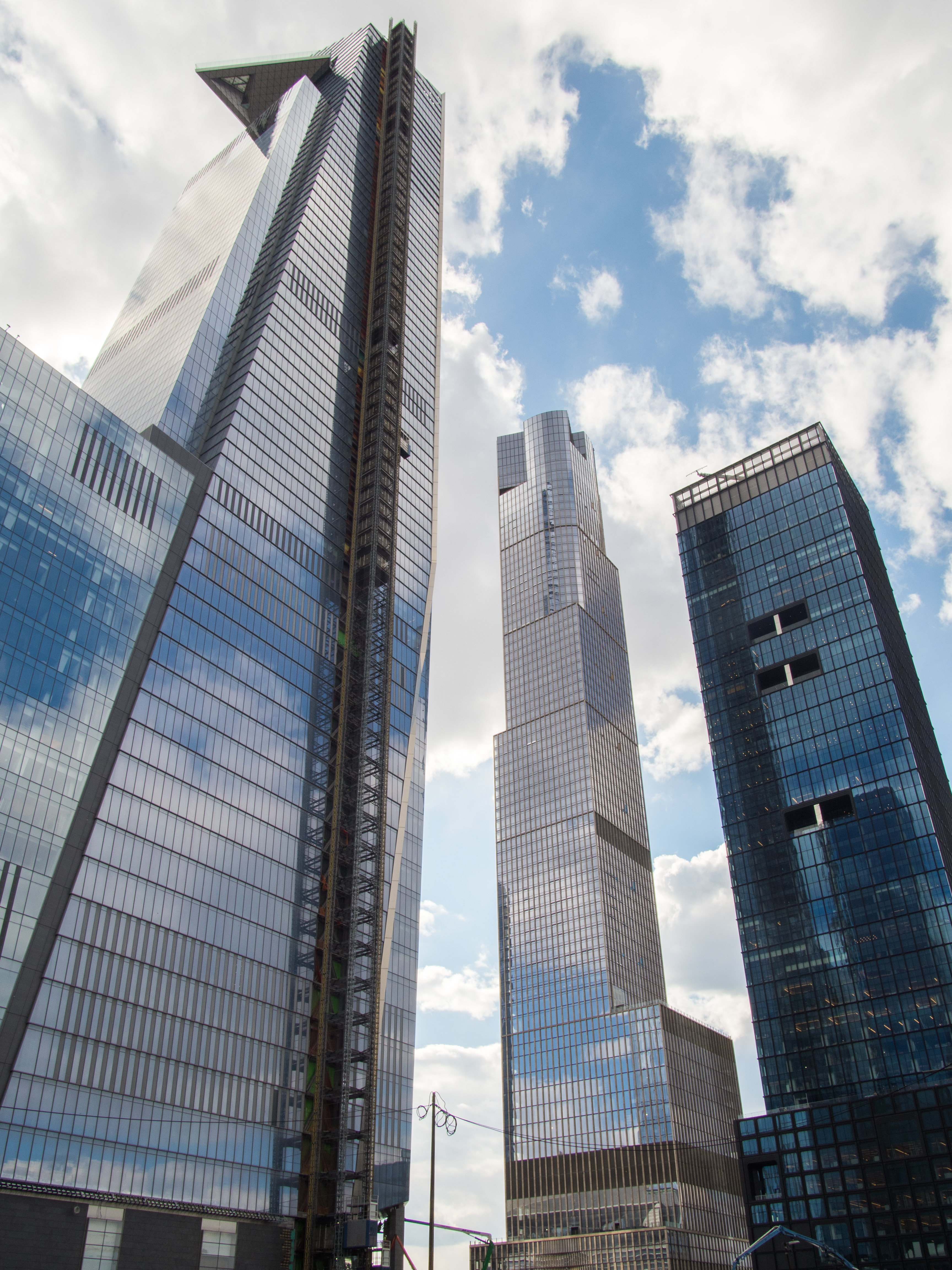 Hudson Yards -- 30 Hudson Yards, 35 Hudson Yards, 55 Hudson Yards